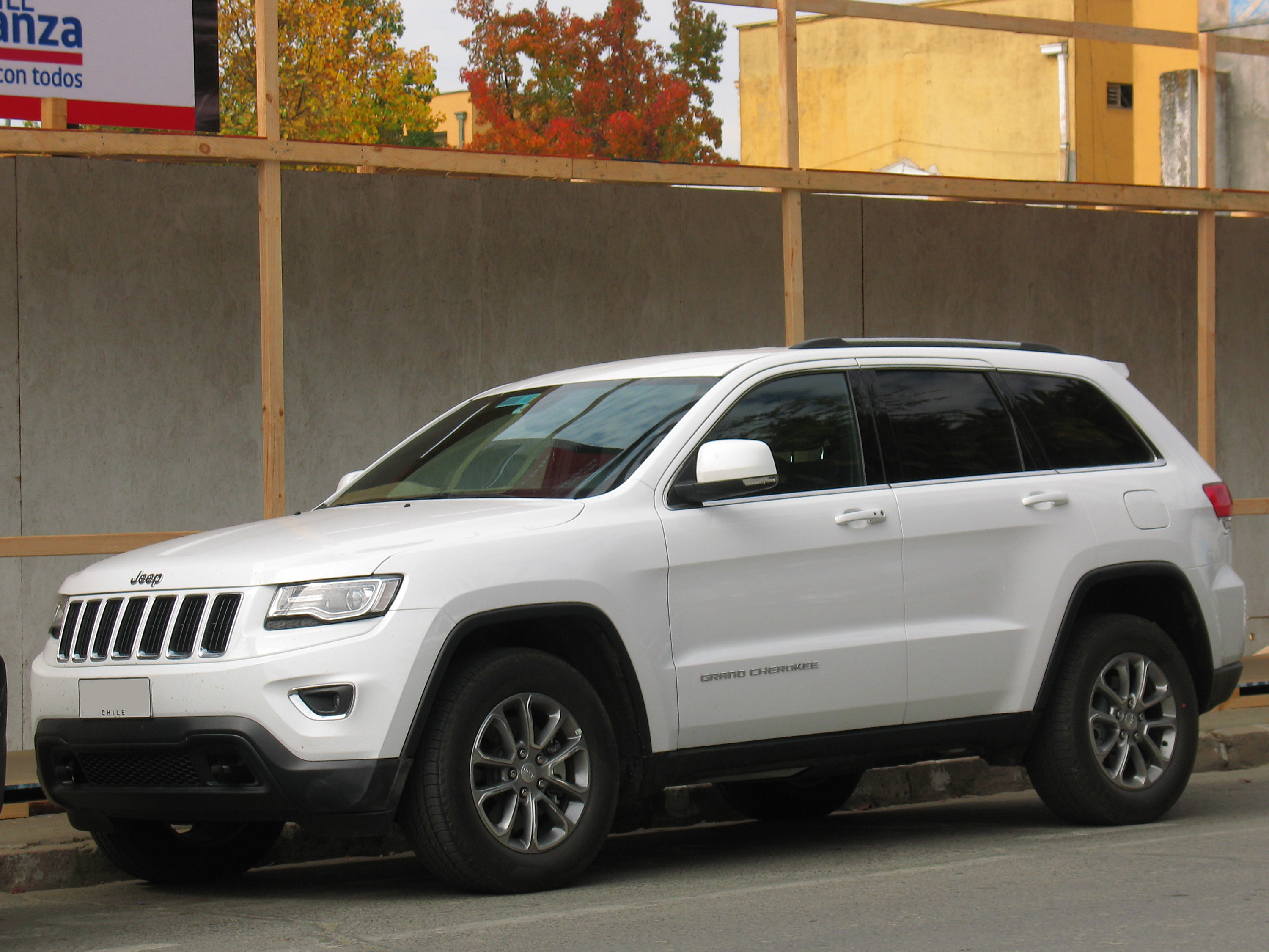 Jeep Grand Cherokee 3.0 CRD Laredo 2014